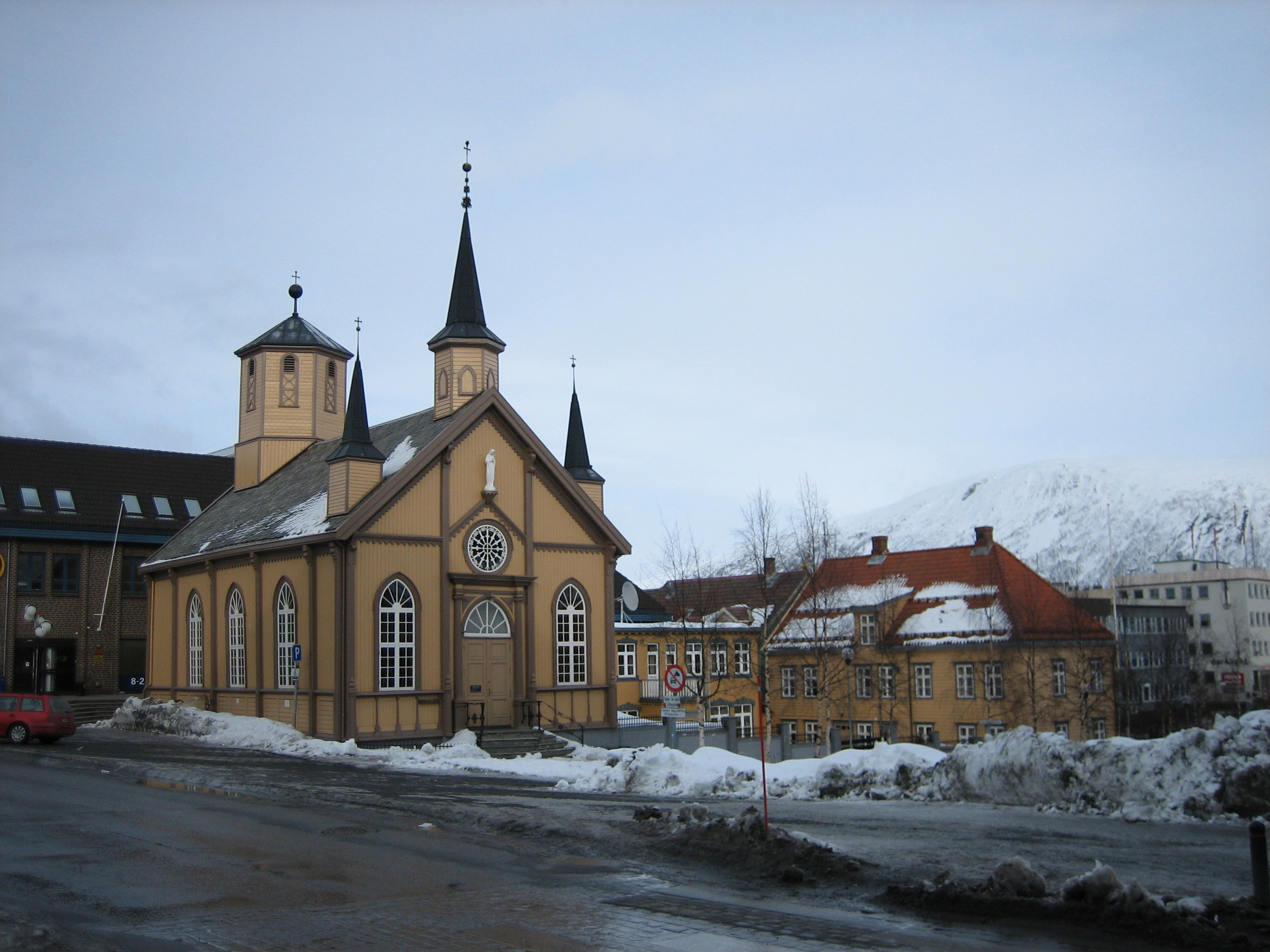 Our Lady Catholic Church and bishopric buildings in Tromsø, Norway. This is the seat of the local Catholic prelate. Pope John Paul II stayed here during his 1989 visit.